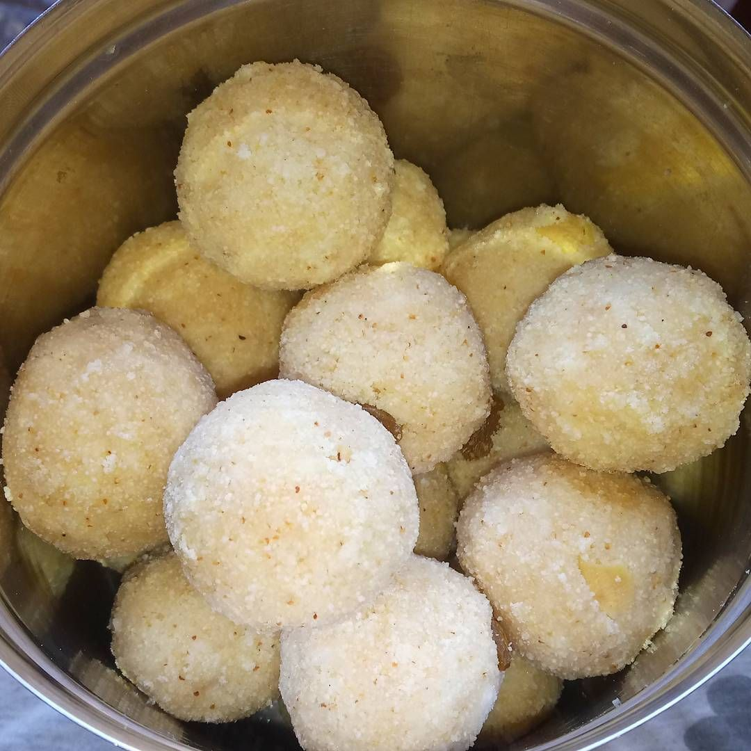 Coconut Ladoo